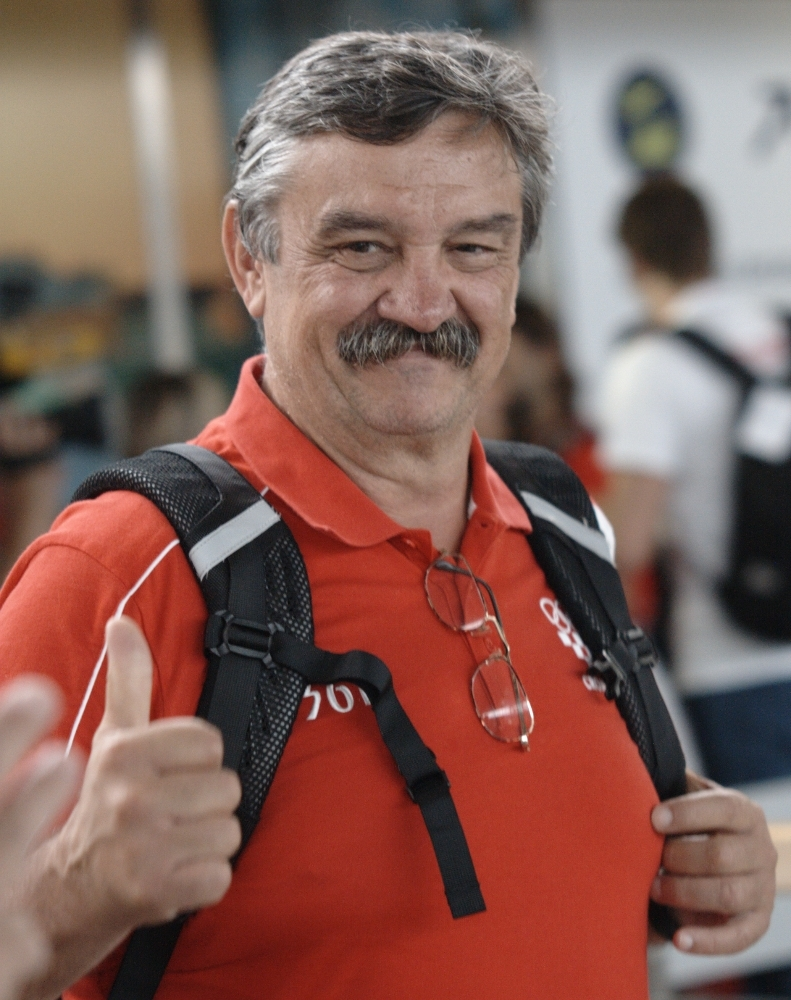 Ratko Rudić, winner of gold medal as water polo coach of Croatia at 2012 Summer Olympics